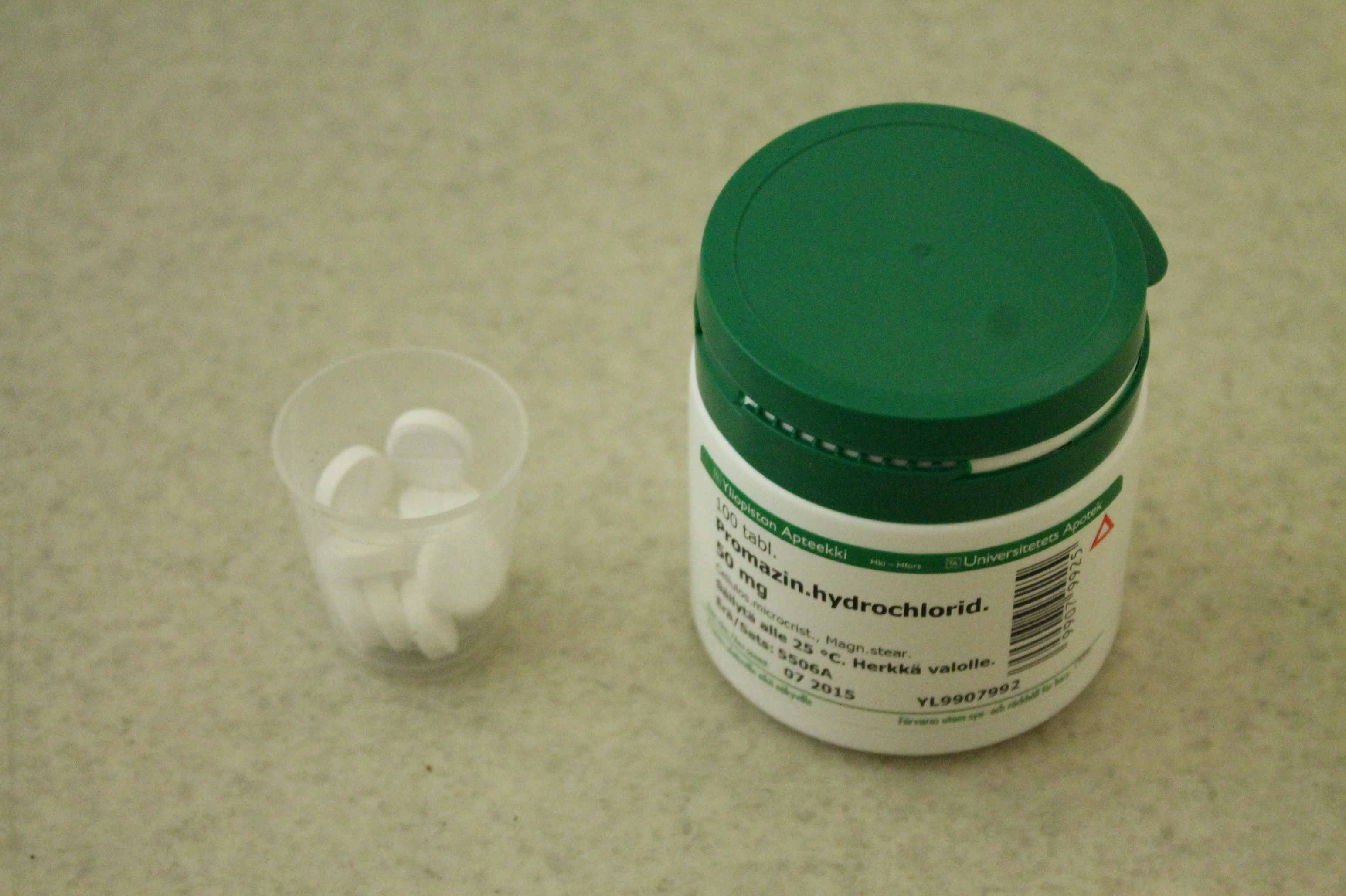 Promazin (promazine) 50mg tablets